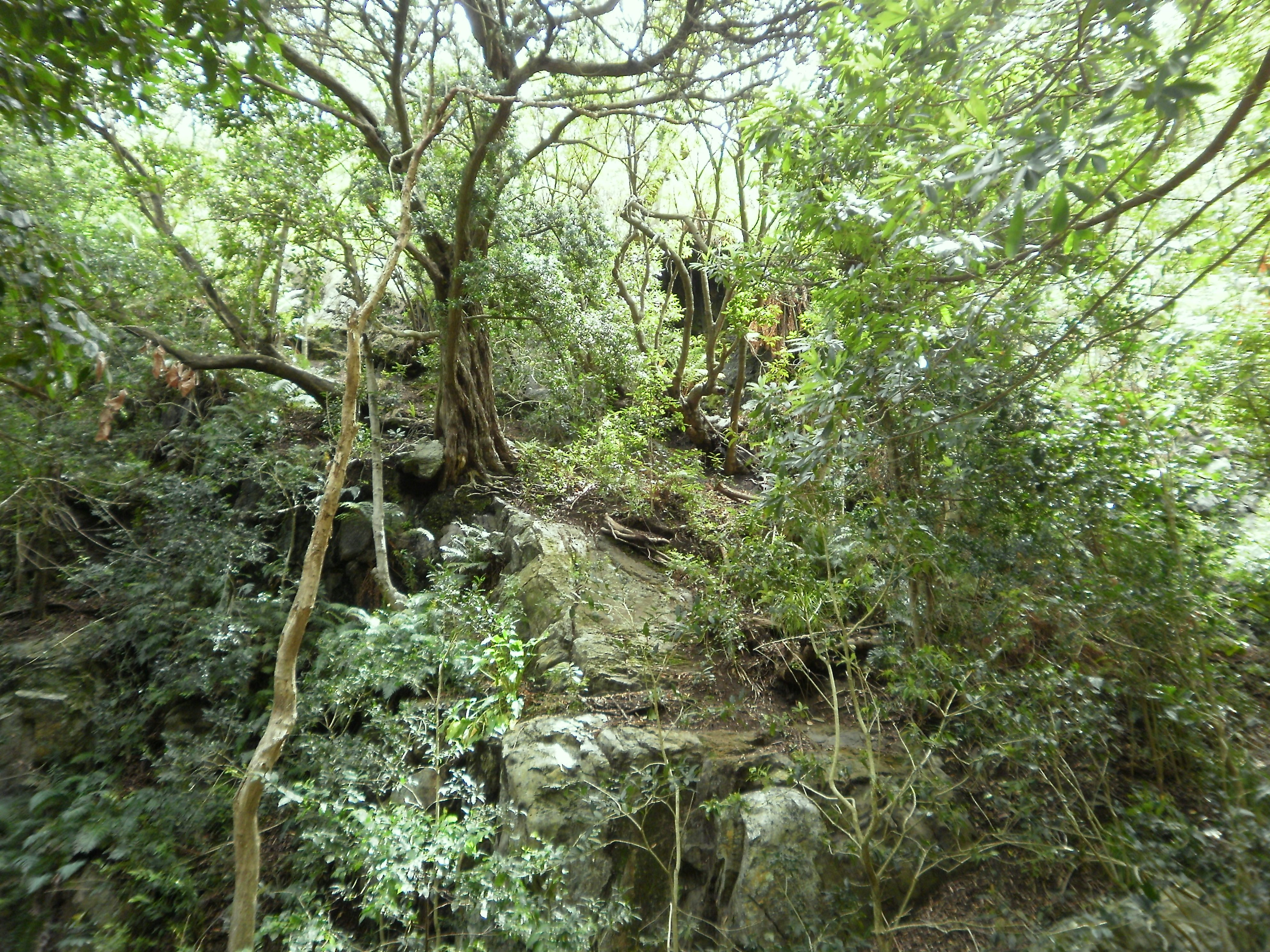 Western Cape Afrotemperate forest. Photo taken in mountains near Harold Porter gardens. Western Cape. South Africa.